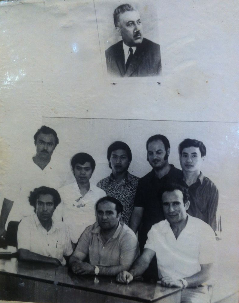 Ələddin Şamilov əcnəbi tələbələrlə